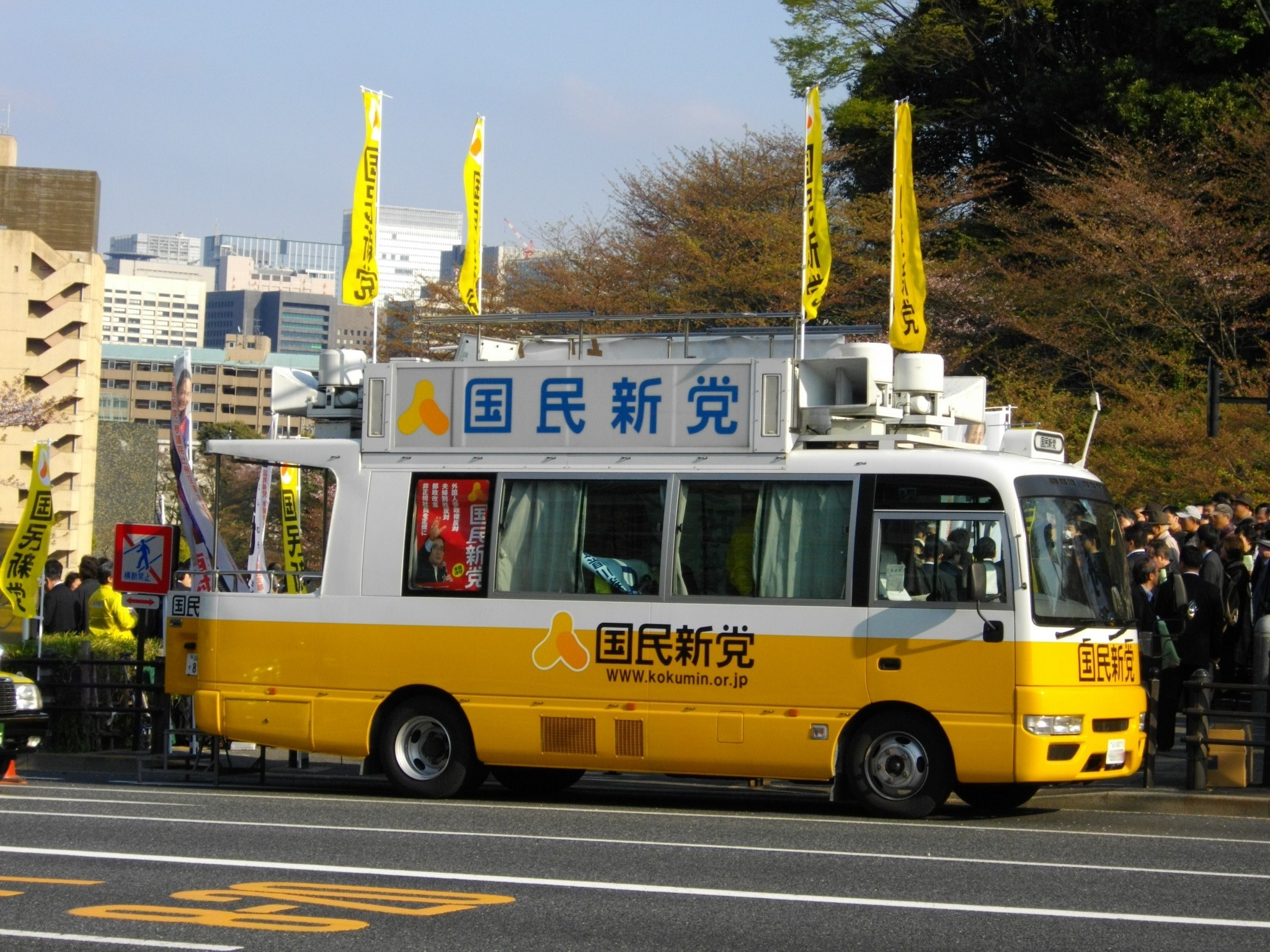 People's New Party political sound truck